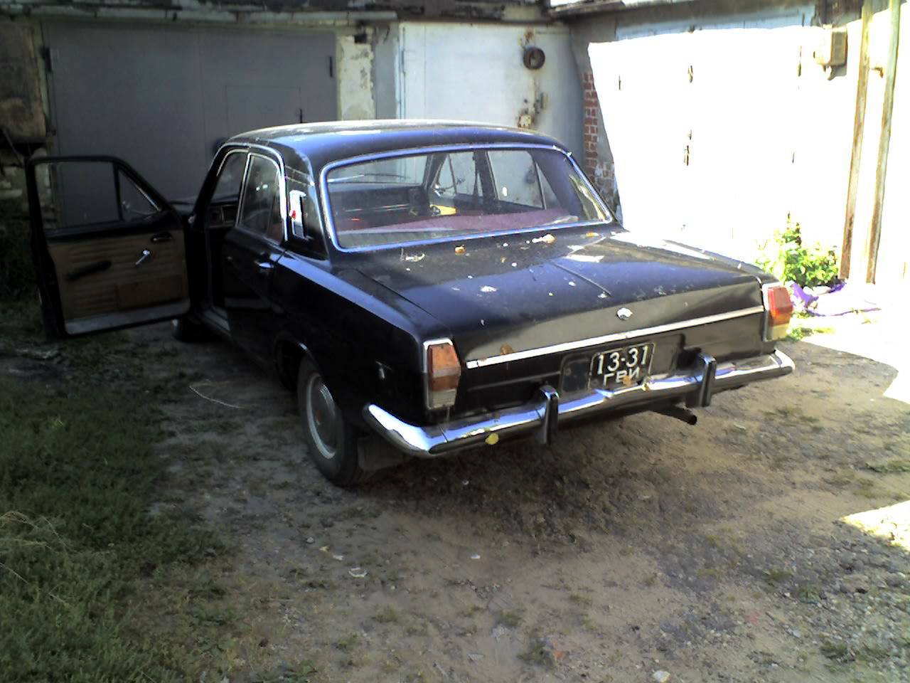 Second generation Volga M24. 1977-85. Taken in 2007 by Stanislav Alexeyev aka DL24